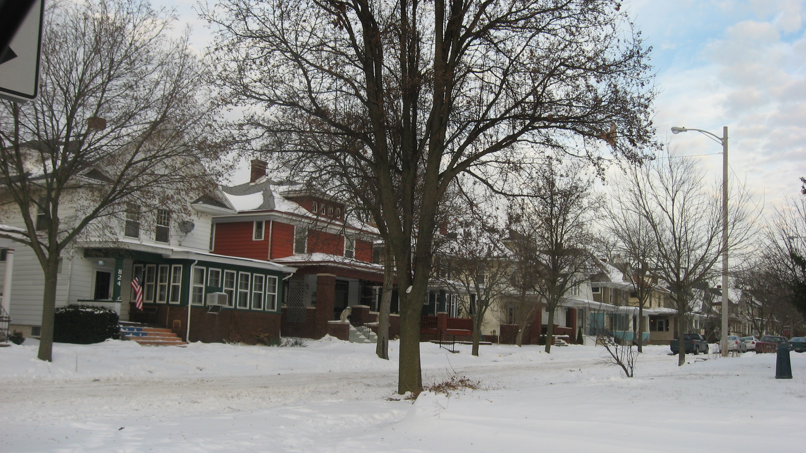 Houses on the northern side of the 800 block of W. Kinnaird Avenue (seen from the Indiana Avenue intersection) in Fort Wayne, Indiana, United States. This block is part of the South Wayne Historic District, a historic district that is listed on the National Register of Historic Places.